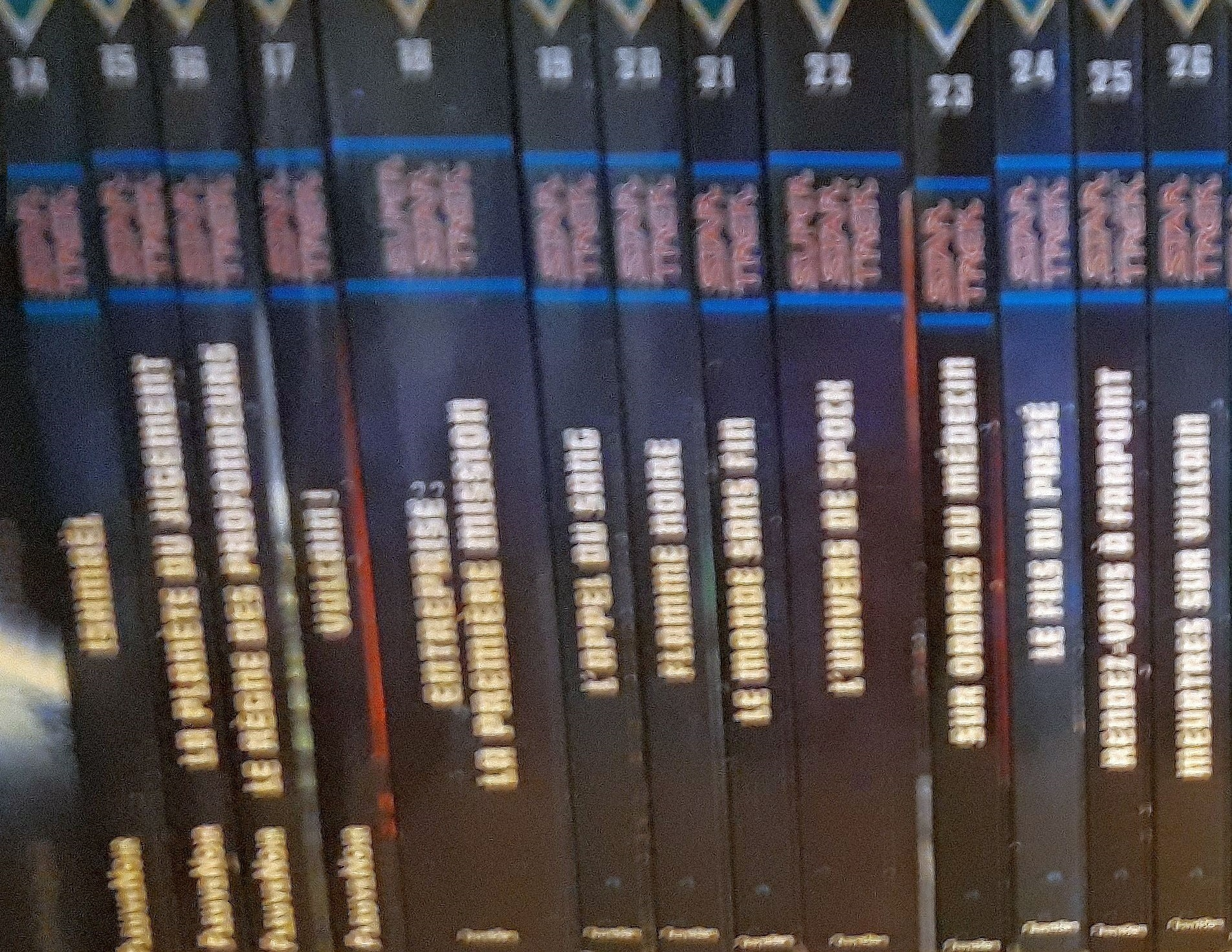 Star Trek french books first serie 14-26.